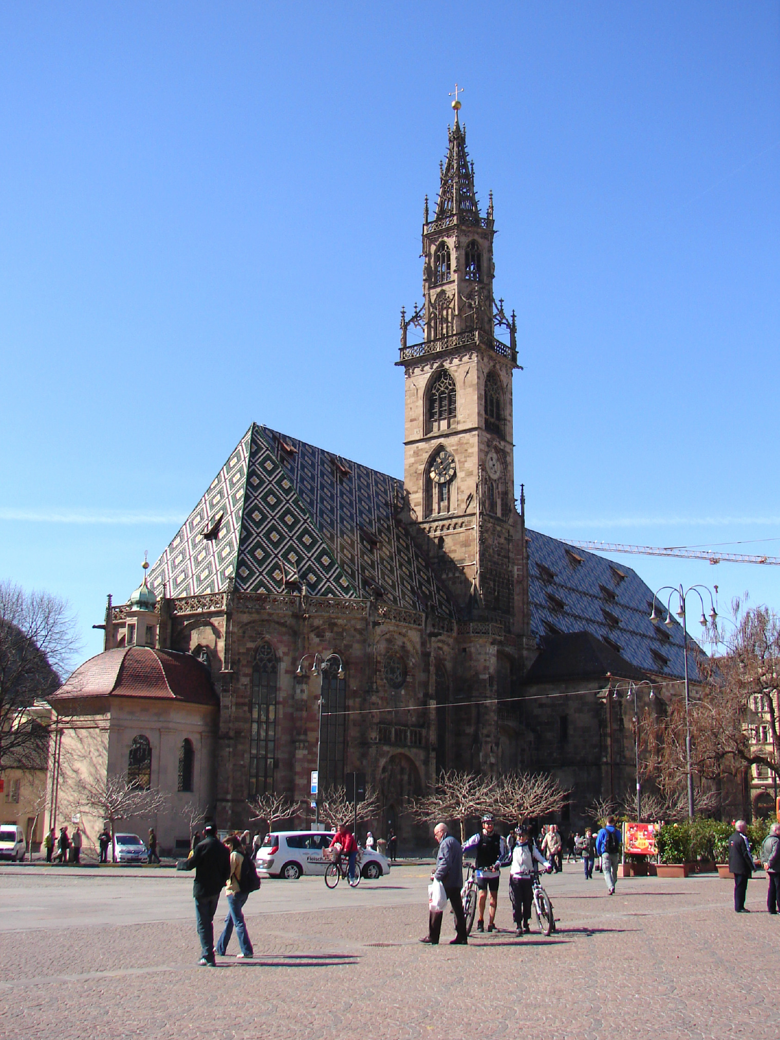 Maria Himmelfahrt, Bolzano.